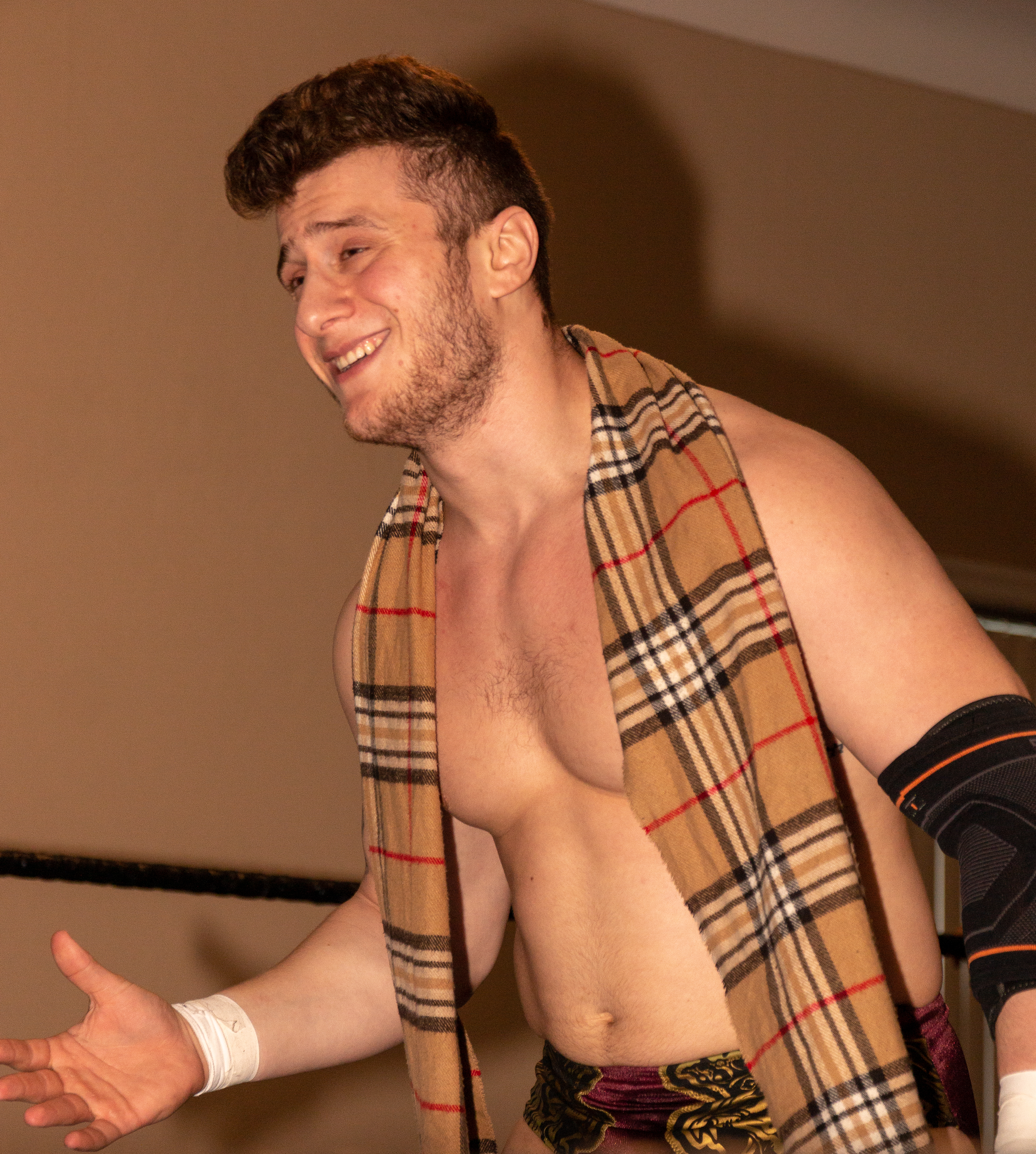 Maxwell Jacob Friedman making his ring entrance at an Alpja-1 show in 2018